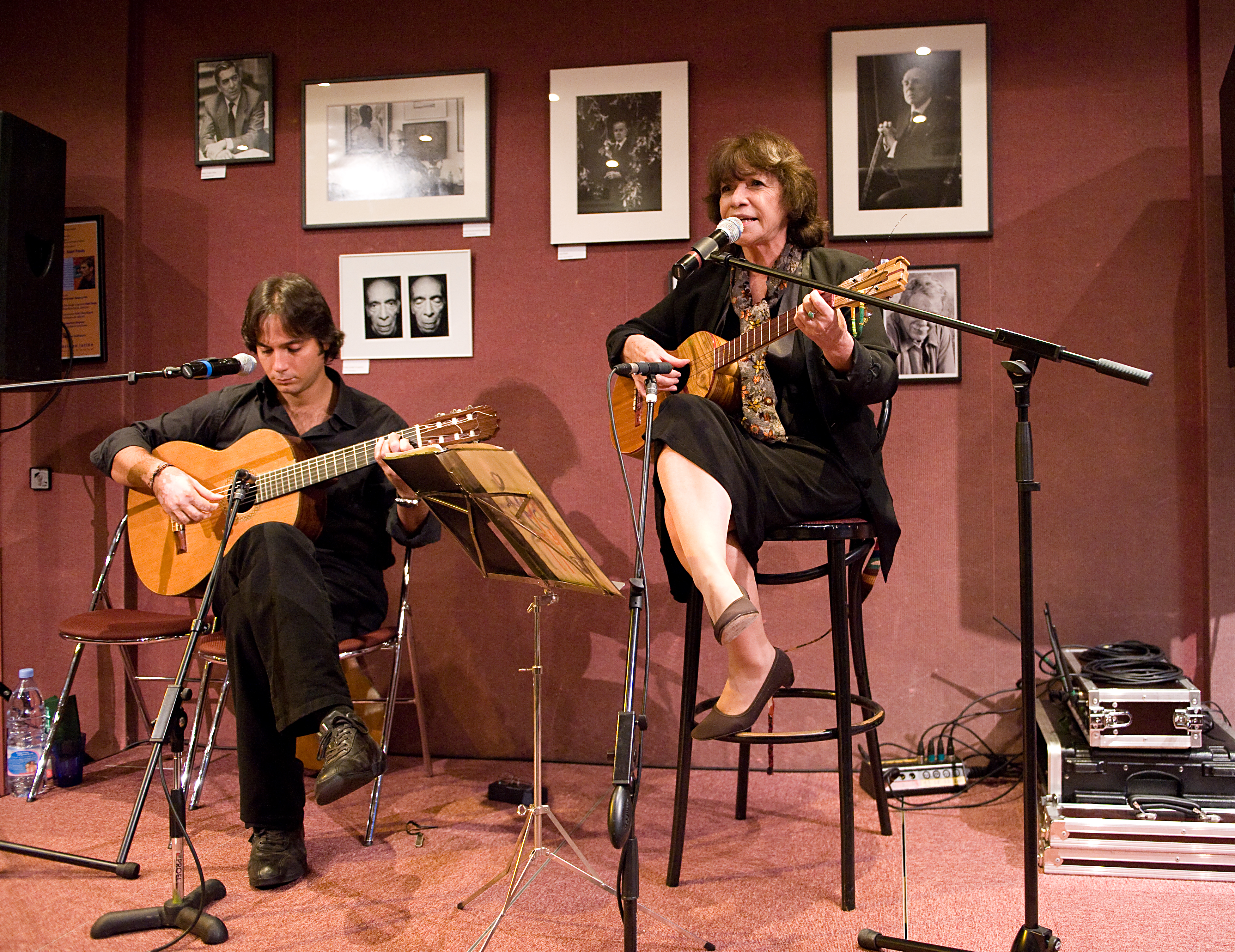 Chilean singer-songwriter Isabel Parra and Neapolitan guitarist Roberto Trenca in concert, at the Maison de l`Amérique Latine - Sep 30, 2008 - Paris. Listen